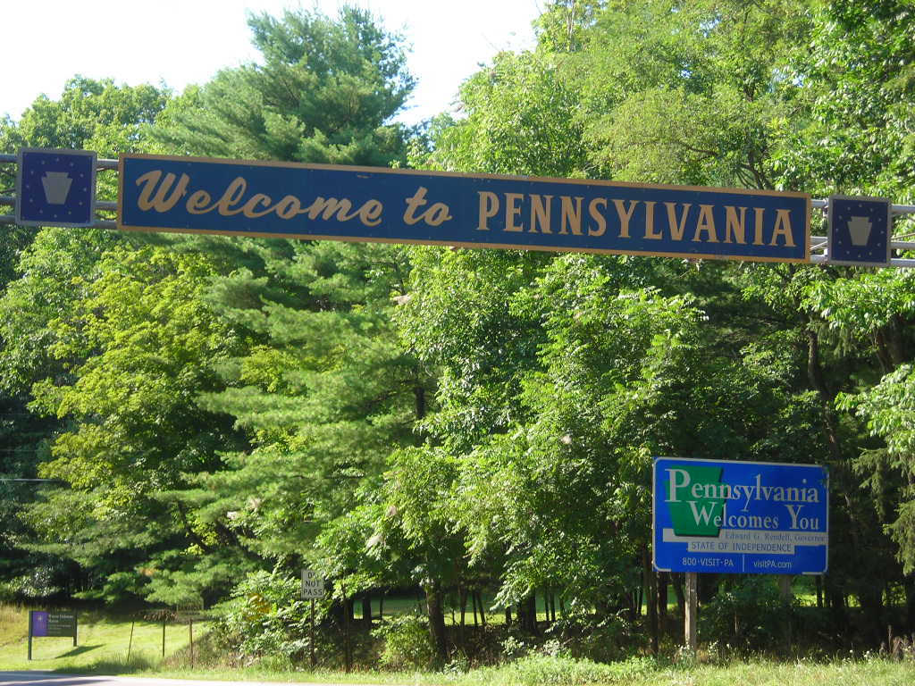 Entering Pennsylvania from New York State Route 52. This is one of PA's original welcome gantries. The newer one is visible in the picture as well.